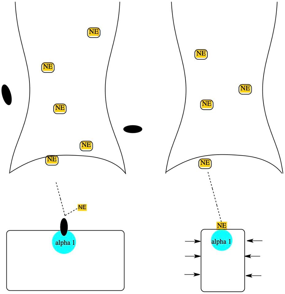 Mechanism of action alpha-1 blocker